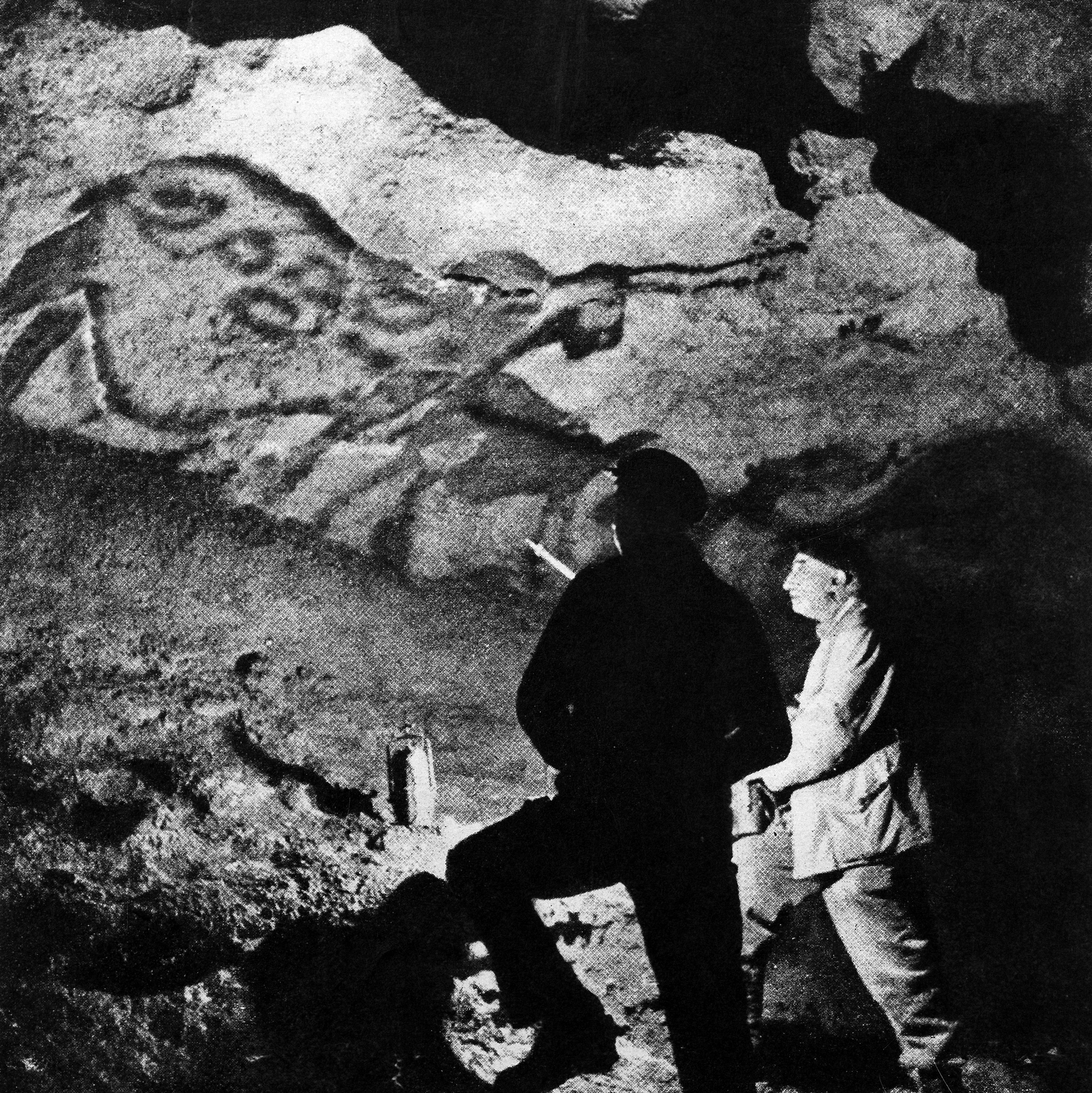 A) Abbe Breuil in Lascaux caves B) Representation of hut carved on cave wall at La Mouthe Wellcome Images Keywords: lascaux caves; Prehistory